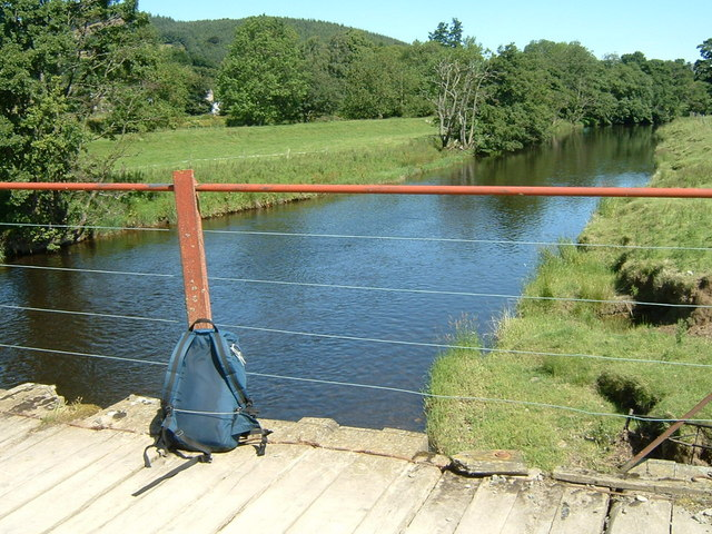 River Tweed bridge at Stobo Where the John Buchan Way crosses the Tweed. The route next meets the river at Peebles (NT2540).